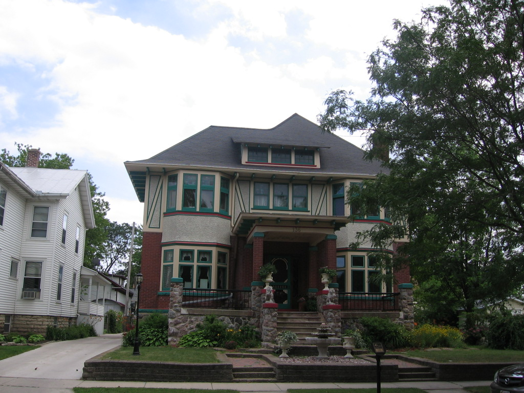 For use in Fond du Lac County and city articles. The front of the George and Mary Agnes Dana house in Fond du Lac, WI